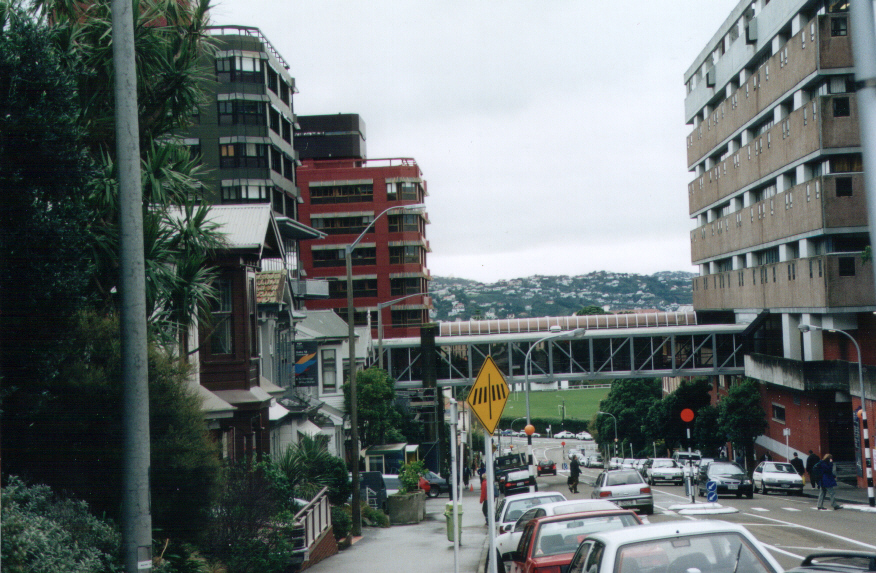 Victoria University Main Kampus at Kelburn Parade.